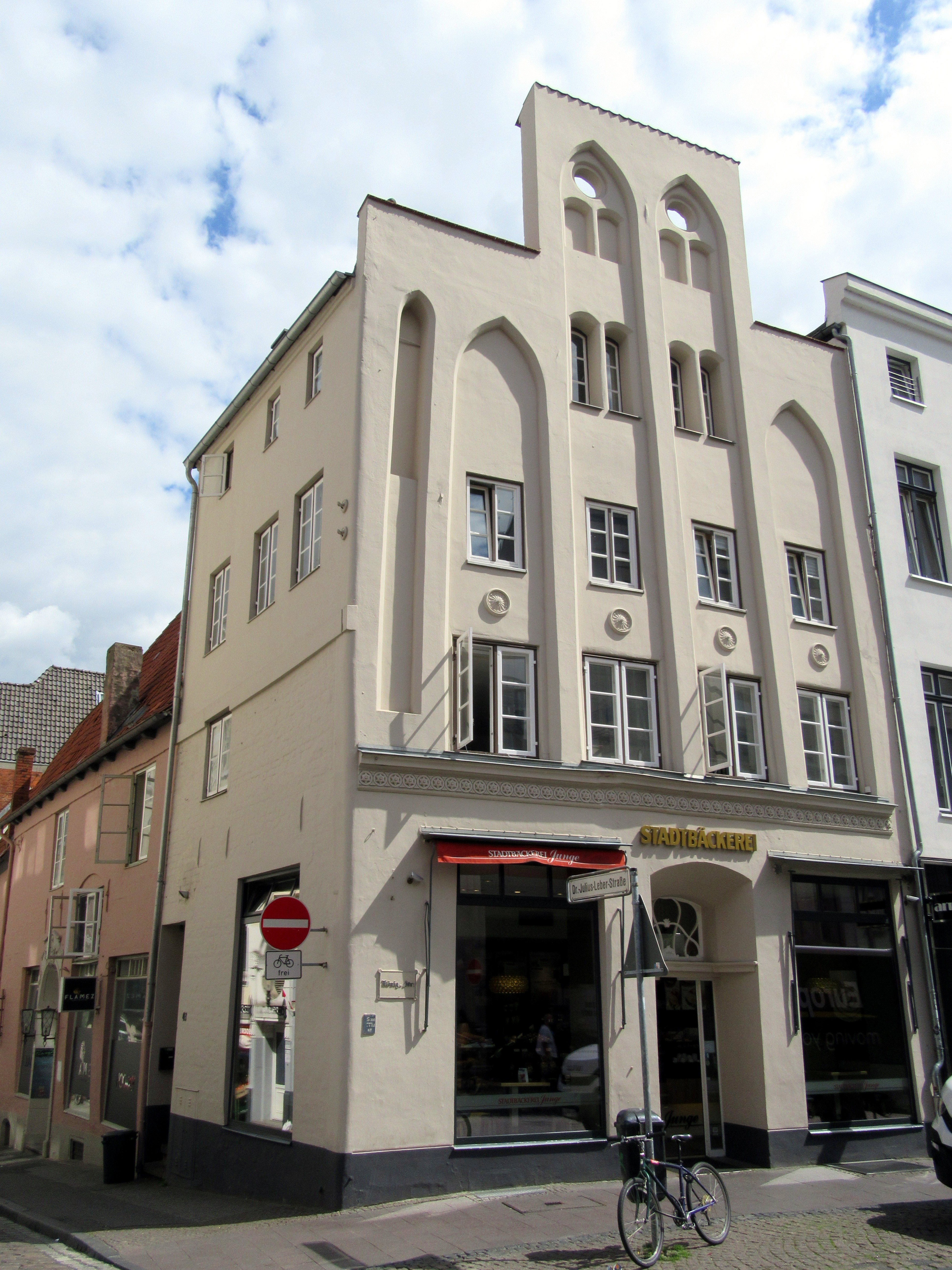 Königstrasse 43 in Lübeck